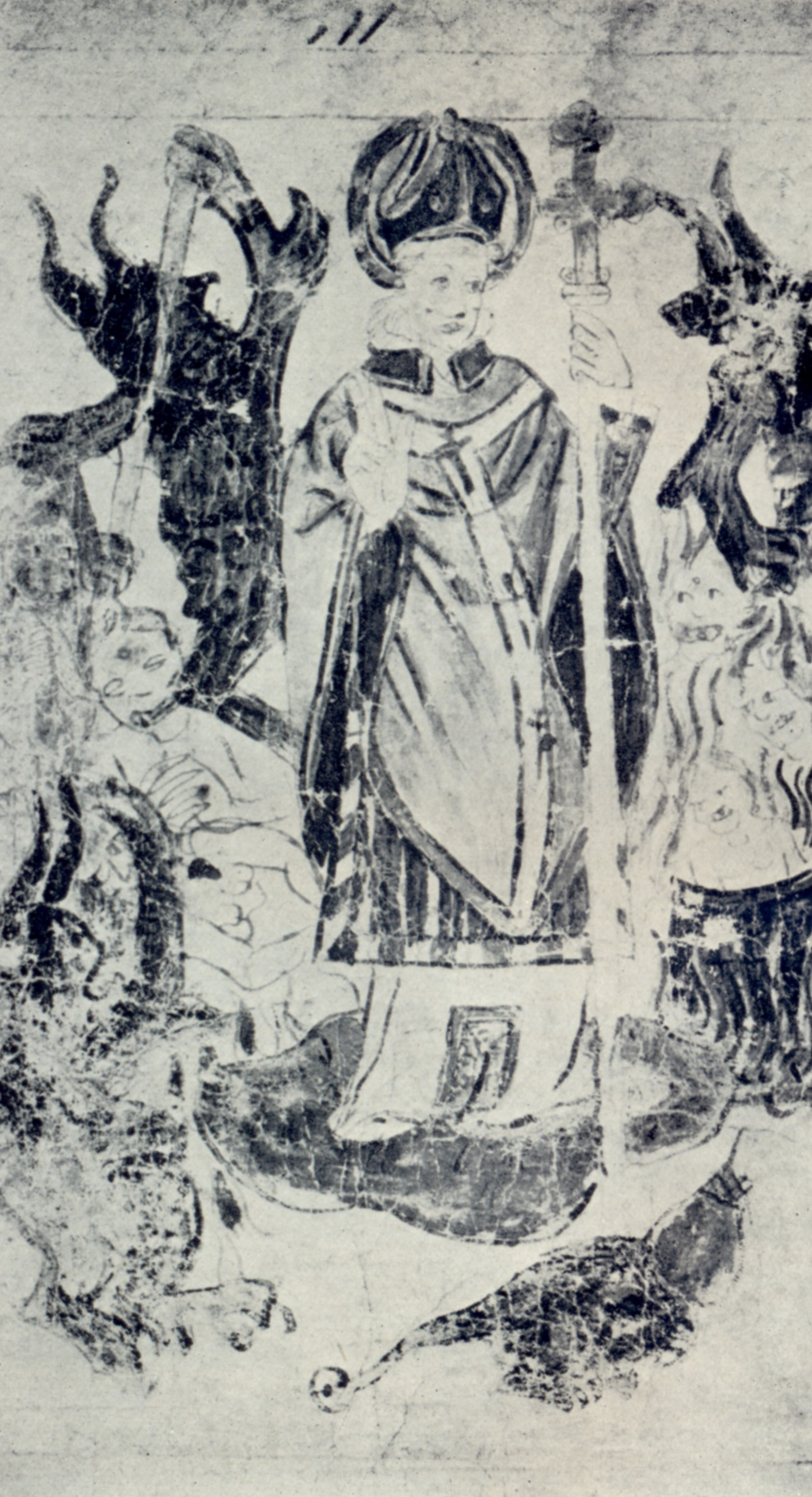 Drawing showing St. John of Bridlington in St. Patrick's Purgatory, illustrating a 15th-century Middle English prose text of The Vision of William of Stranton, MS Royal 17 B xliii at British Library. Short description by H. L. D. Ward: Preceded by a rude coloured drawing of a sainted Bishop in the act of benediction, surrounded by Fiends and by Souls in torment (f. 132 b). See H. L. D. Ward: Catalogue of Romances in the Department of Manuscripts in the British Museum, Volume II, London 1893.